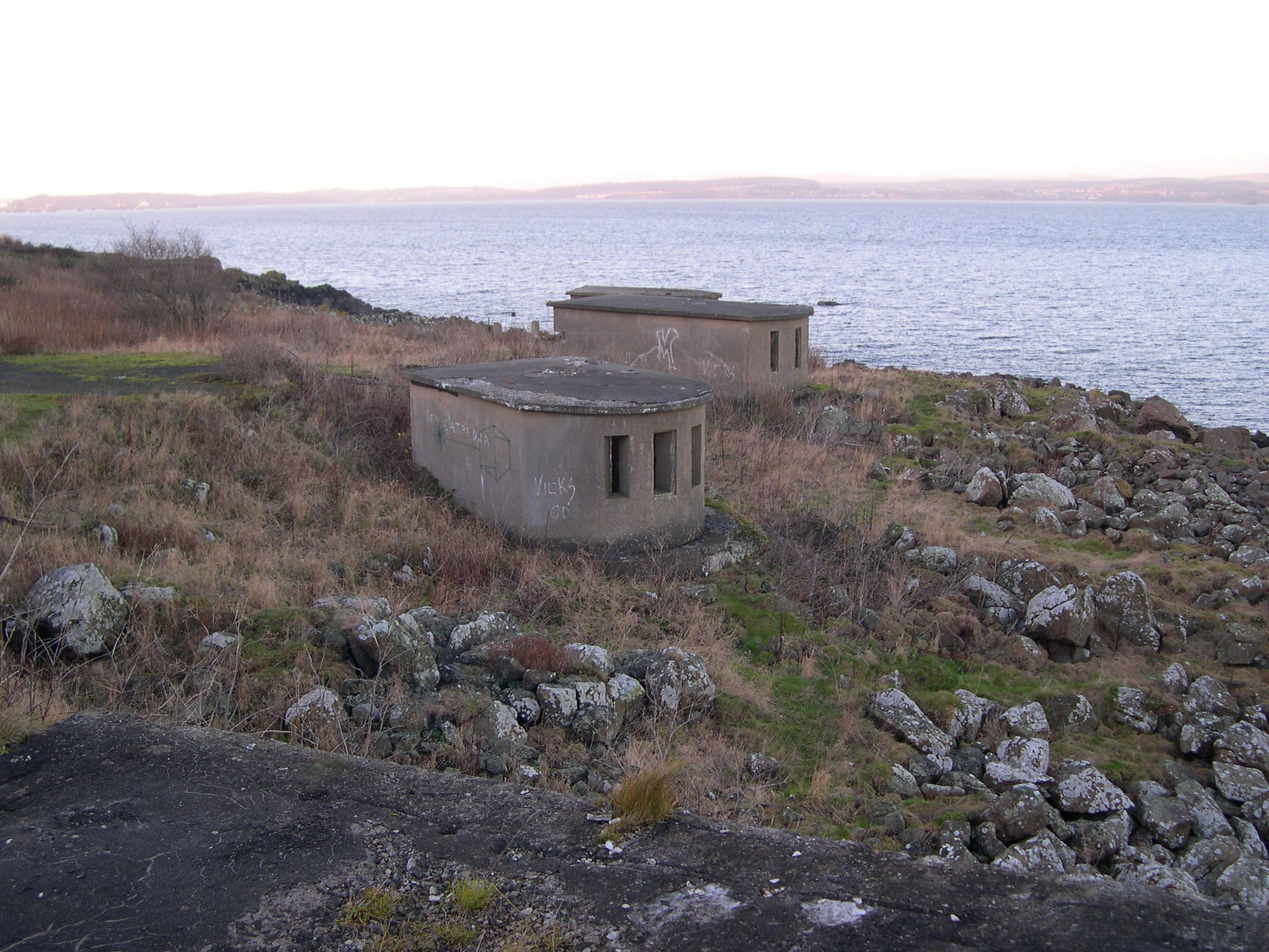 A picture of WW2-era fortifications on Cramond Island, Edinburgh, Scotland.